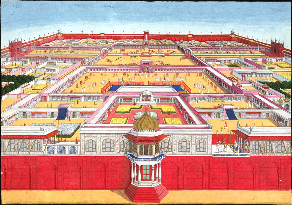 Opaque water-colour of a bird's-eye view of the Red Fort at Delhi from the east, by an anonymous artist working in the Lucknow style, c. 1780-90. This view shows an emperor, probably Shah 'Alam (1759-1806) entering the Diwan-i-Khas (Hall of Private Audience) on the right. Of the buildings in the immediate foreground, the Rang Mahal (Colour Palace) is on the left, the Khwabgah Jharoka (Place of Dreams Balcony) in the centre, and the Moti Masjid (Pearl Mosque) on the extreme right. The Red Fort or Lal Qila, was constructed by Shah Jahan (r.1627-58) for his new city of Shahjahanabad. The octogonal-shaped fort complex is surrounded by high fortification walls of red sandstone which reach between 18-33 metres in height. Other key buildings inside the fort include the Diwan-i-Am (Hall of Public Audience) and the Khas Mahal (private chambers of the emperor).